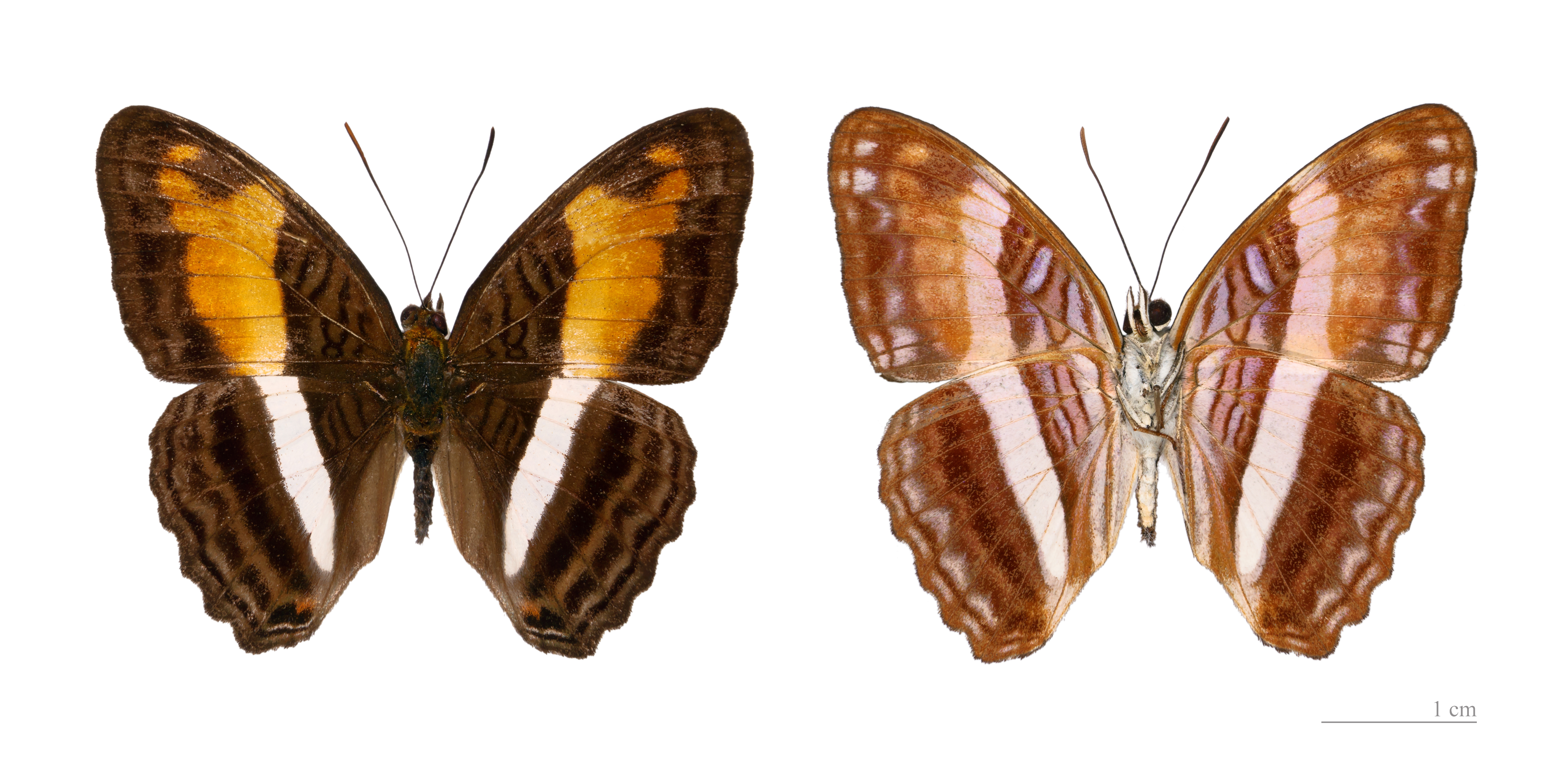 ♂ - Two views of same specimen Locality : Kaw road, Pk37, French Guiana.